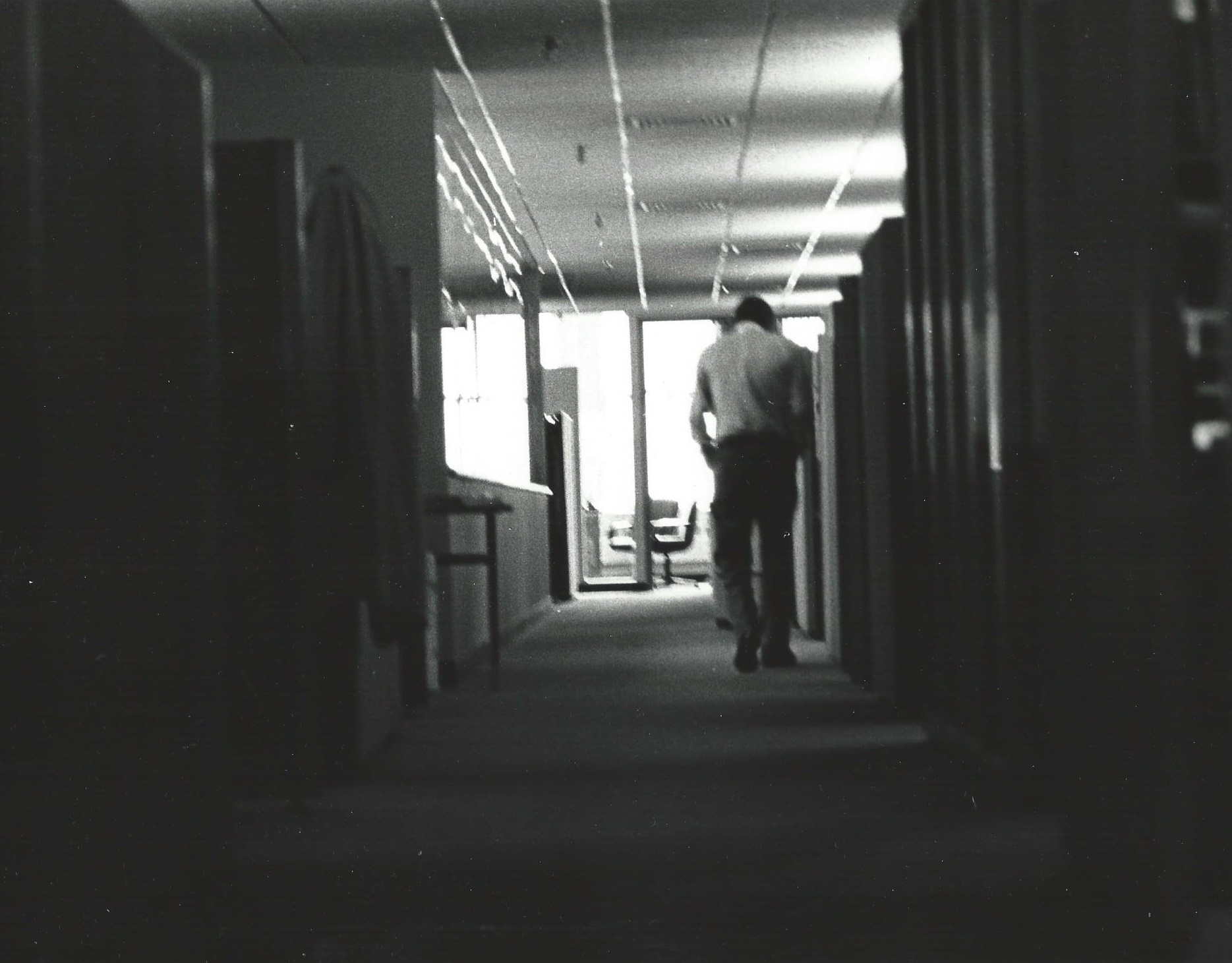 A scene at Informatics General Corporation in its office on Park Avenue South in New York City, as a tired staffer walks down a corridor between cubicles at night.